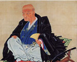 Niwa Nagatomi, lord of the Nihonmatsu domain.